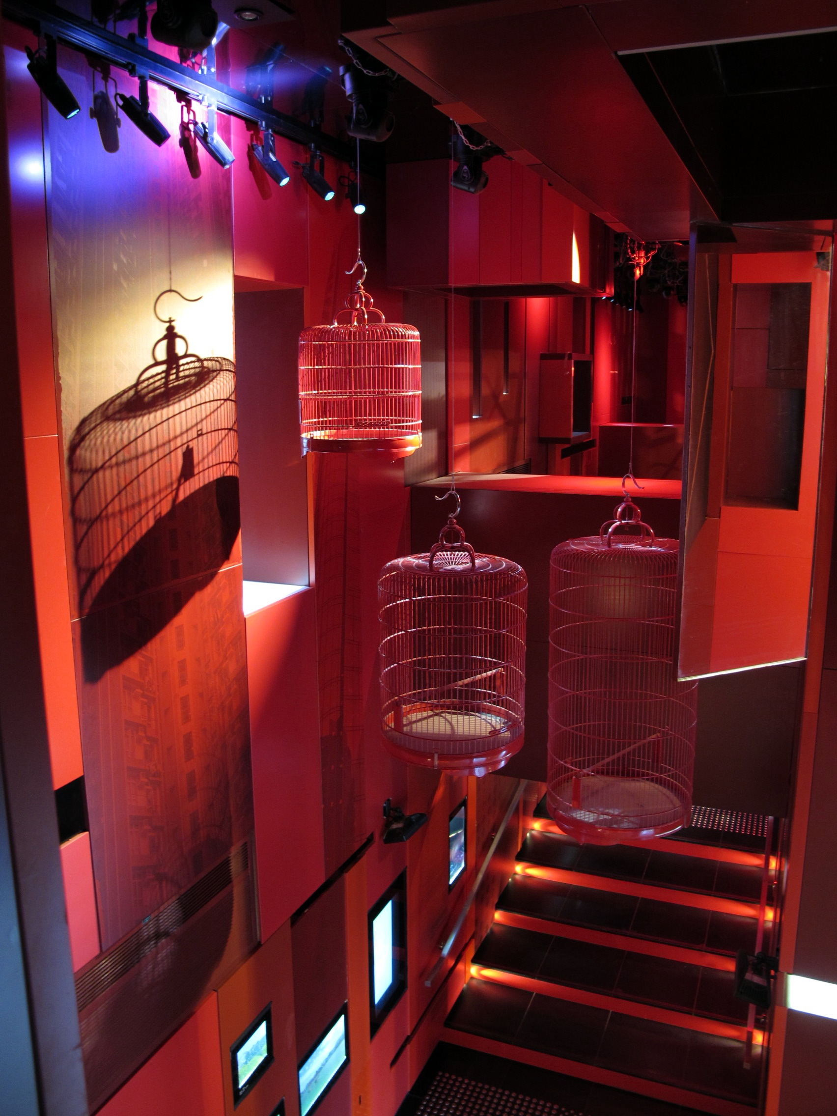 City Gallery Great World Cities 展城館